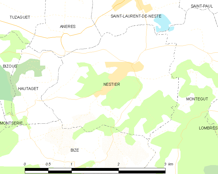 Map of French municipality